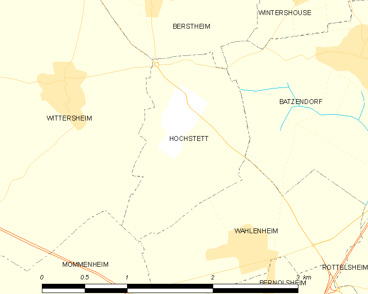 Map of French municipality